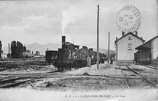 Railway station of Saint-Jean-Pied-de-Port.